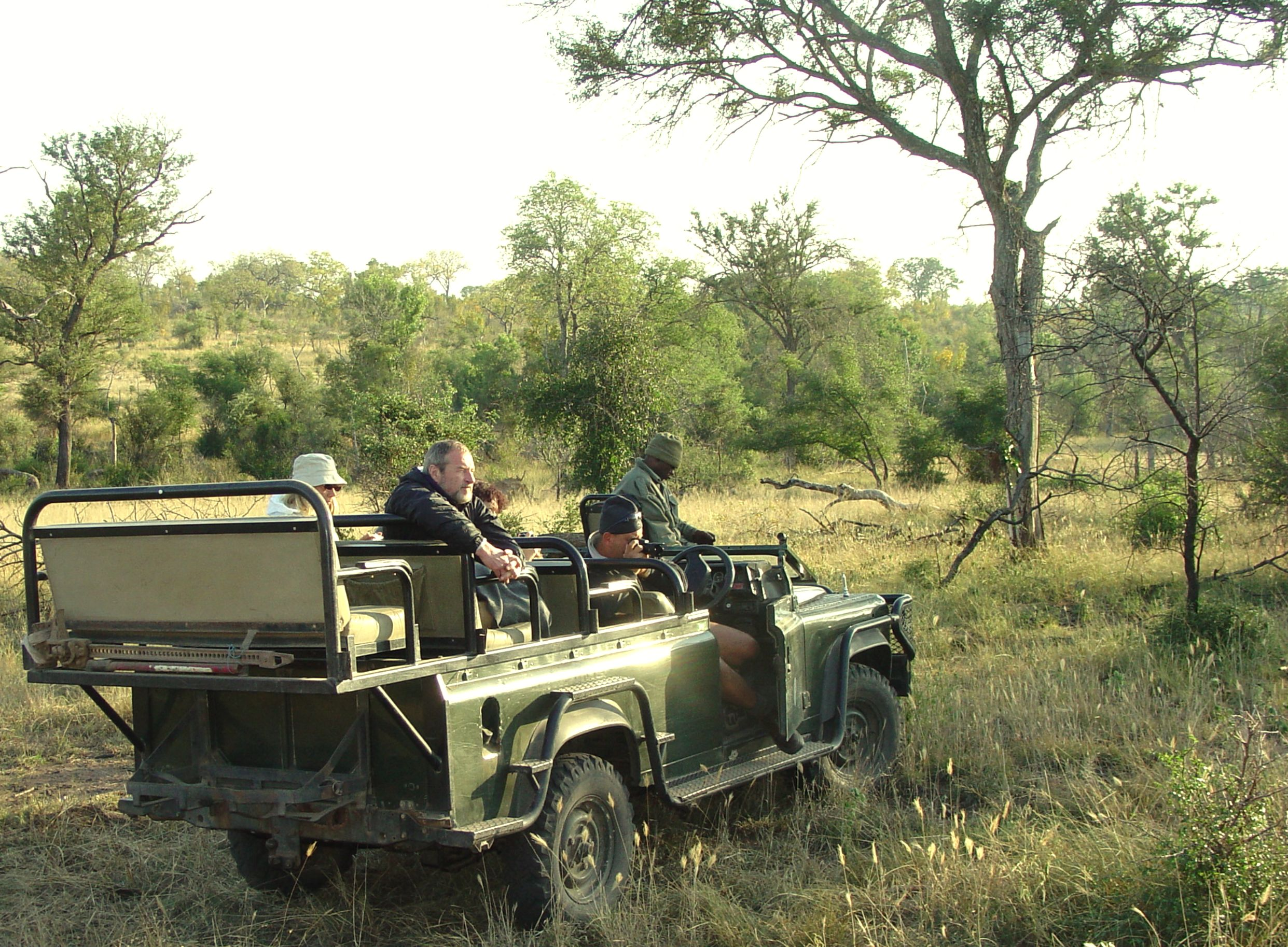 A game drive in the Sabi-Sabi Game reserve, Mpumalanga Province, South Africa